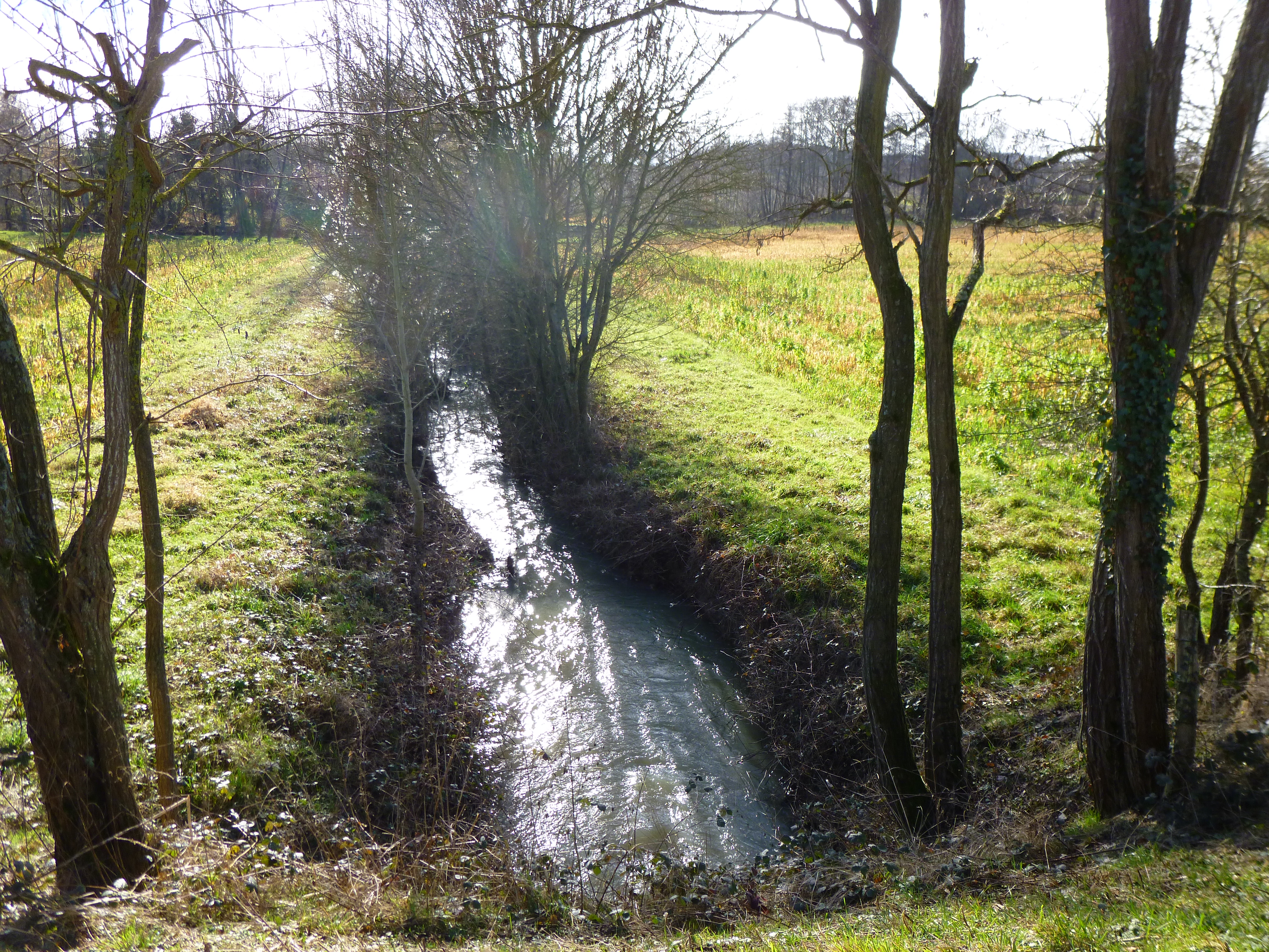 Saint-Maurice-sur-Aveyron, Loiret, région Centre, France. The "ru de Dorlot" in January 2014, looking upstream from the D56 road to Charny. This is a tributary of the river Aveyron which lies slightly on the right just beyond the line of trees seen here, as does Fontainejean and its 12th-century abbey ruins.